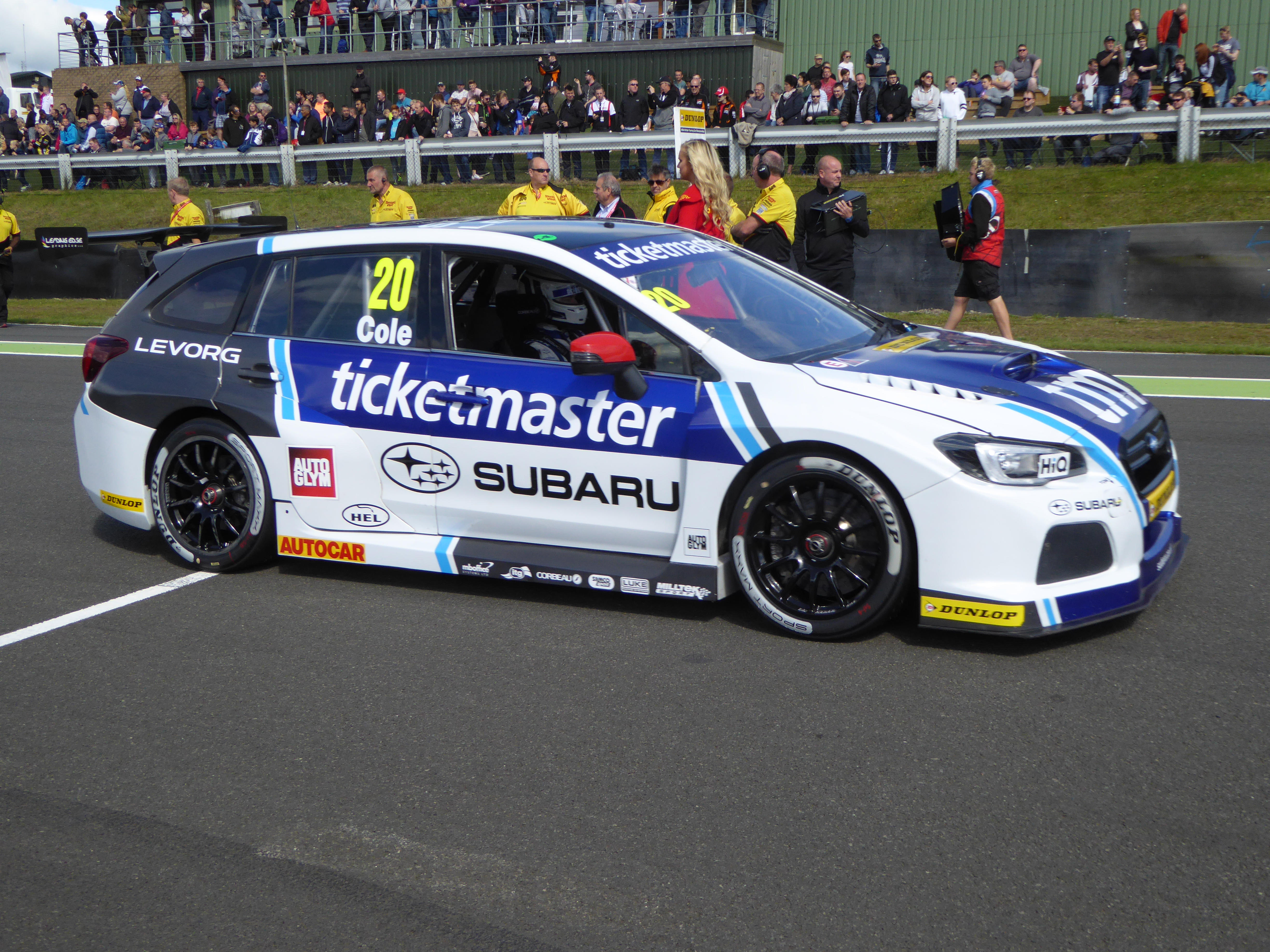 James Cole (Adrian Flux Subaru Racing), at the Knockhill round of the 2017 British Touring Car Championship.